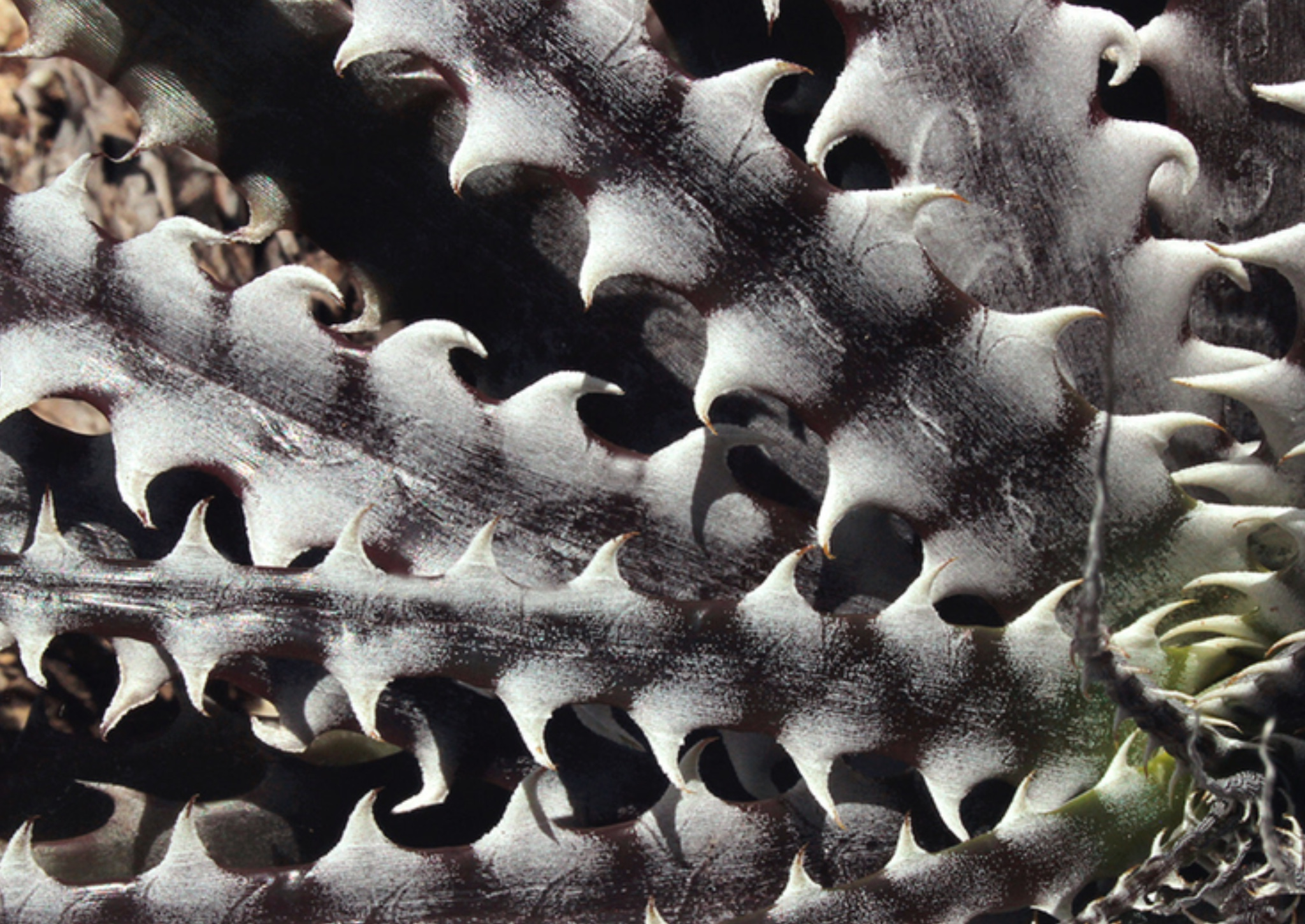 Esteves detail of leave, plant of Holotype Collection